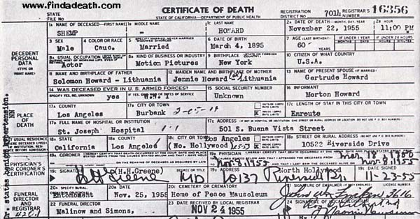 Shemp Howard death certificate